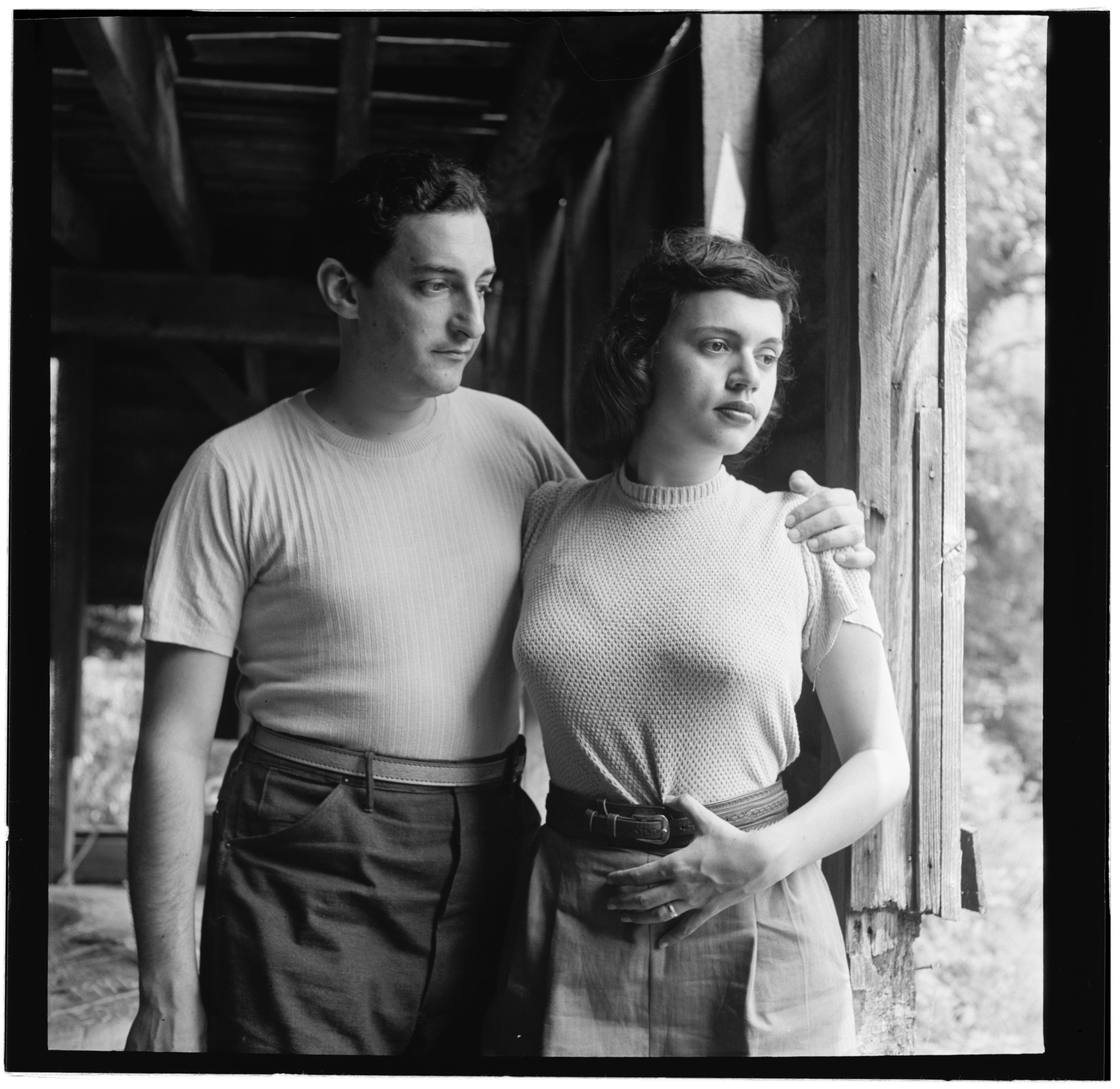 Portrait of Herb Abramson and Miriam Abramson, Flatbrookville, N.J., ca. 1947